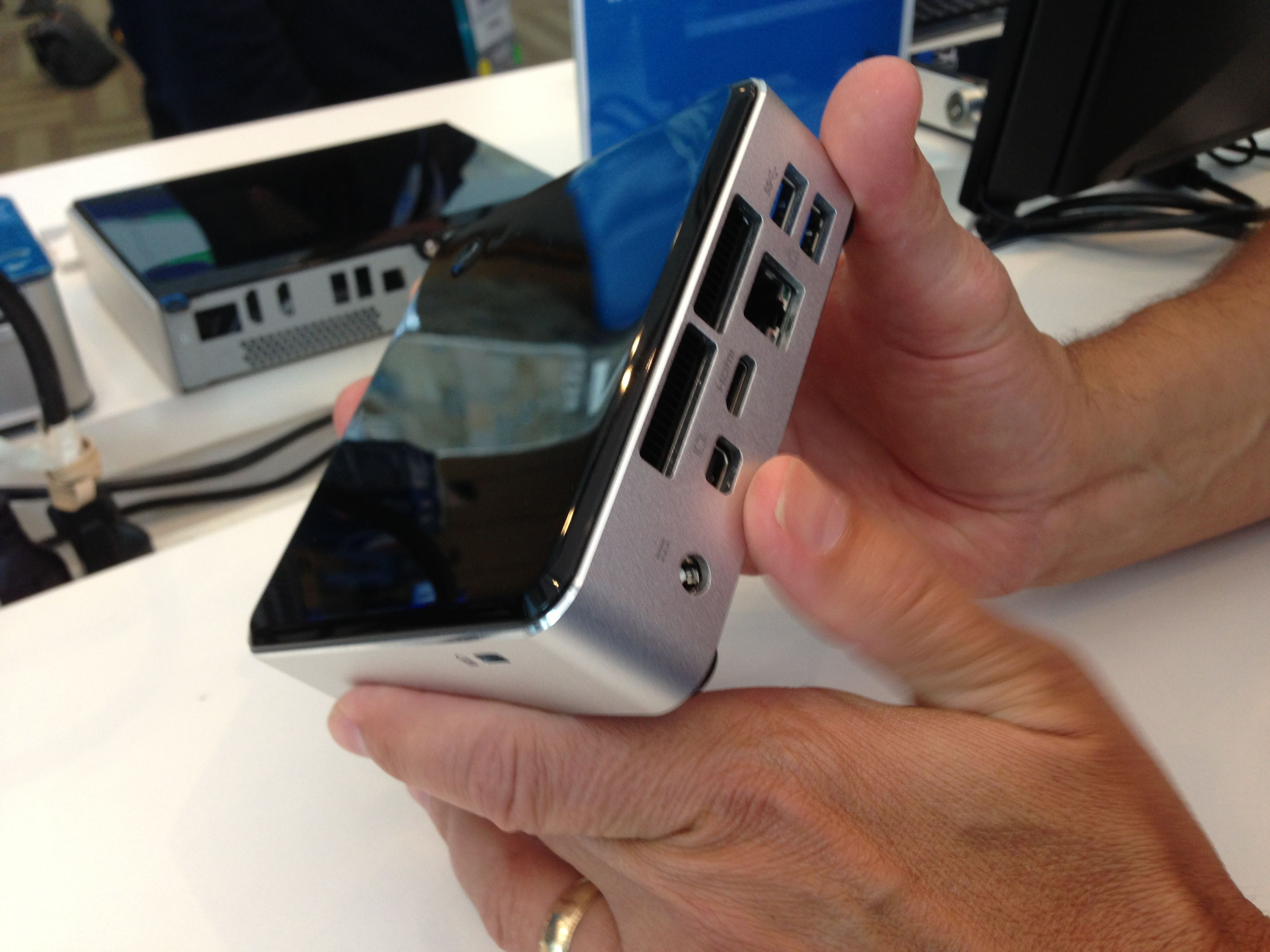 Haswell-based Wilson Canyon Intel NUC, case rear panel. Berkeley Computer Science Lab retools for student influx by replacing 2001-vintage Sun Ray thin client systems with Intel NUCs.